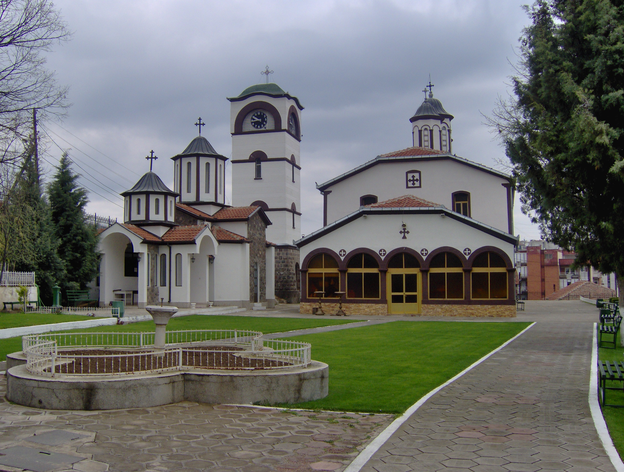 The orthodox church St. George in Kočani, Republic of Macedonia